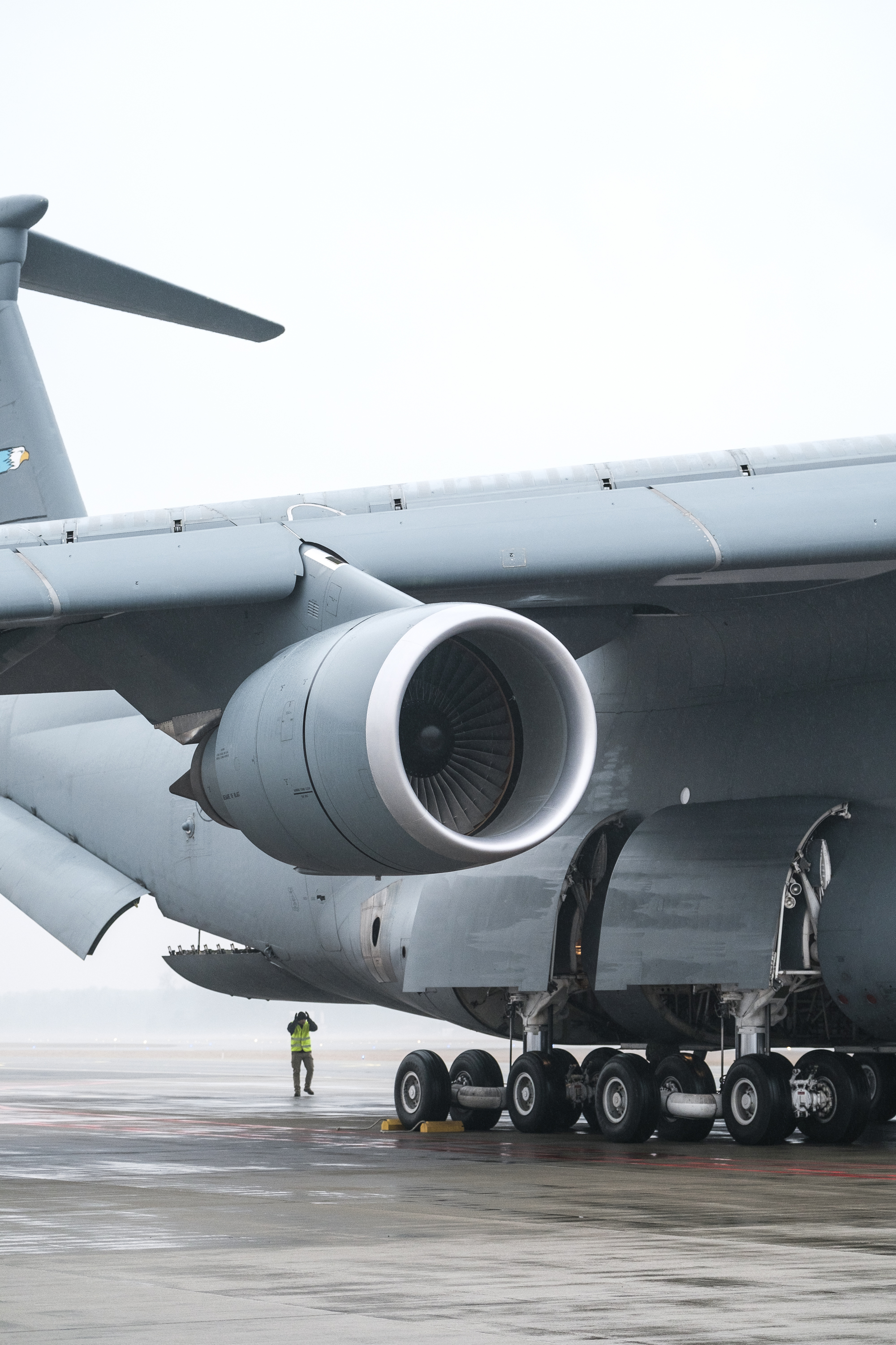 Lockheed C-5M Super Galaxy delivering Sikorsky Blackhawks to Riga airport